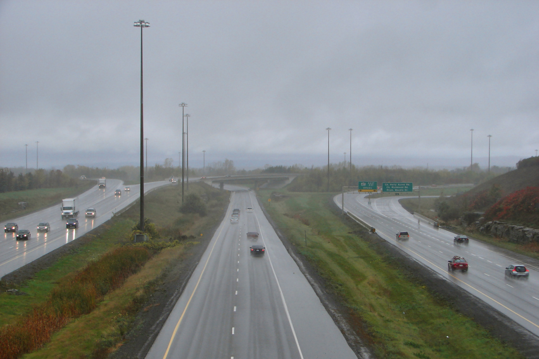 Highway 416 near its terminus at Highway 417 in Ottawa, Ontario, Canada